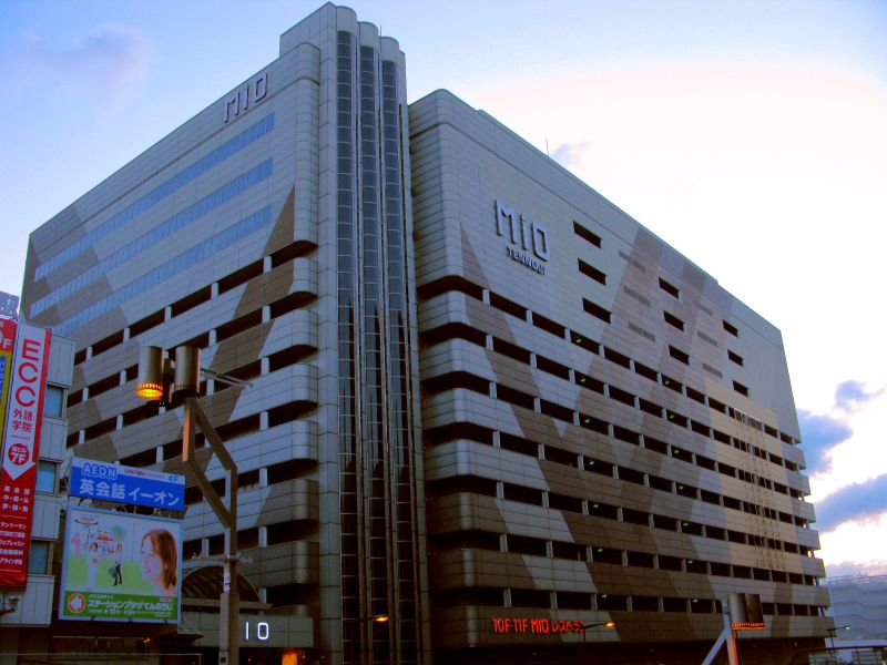 Tennoji MiO.